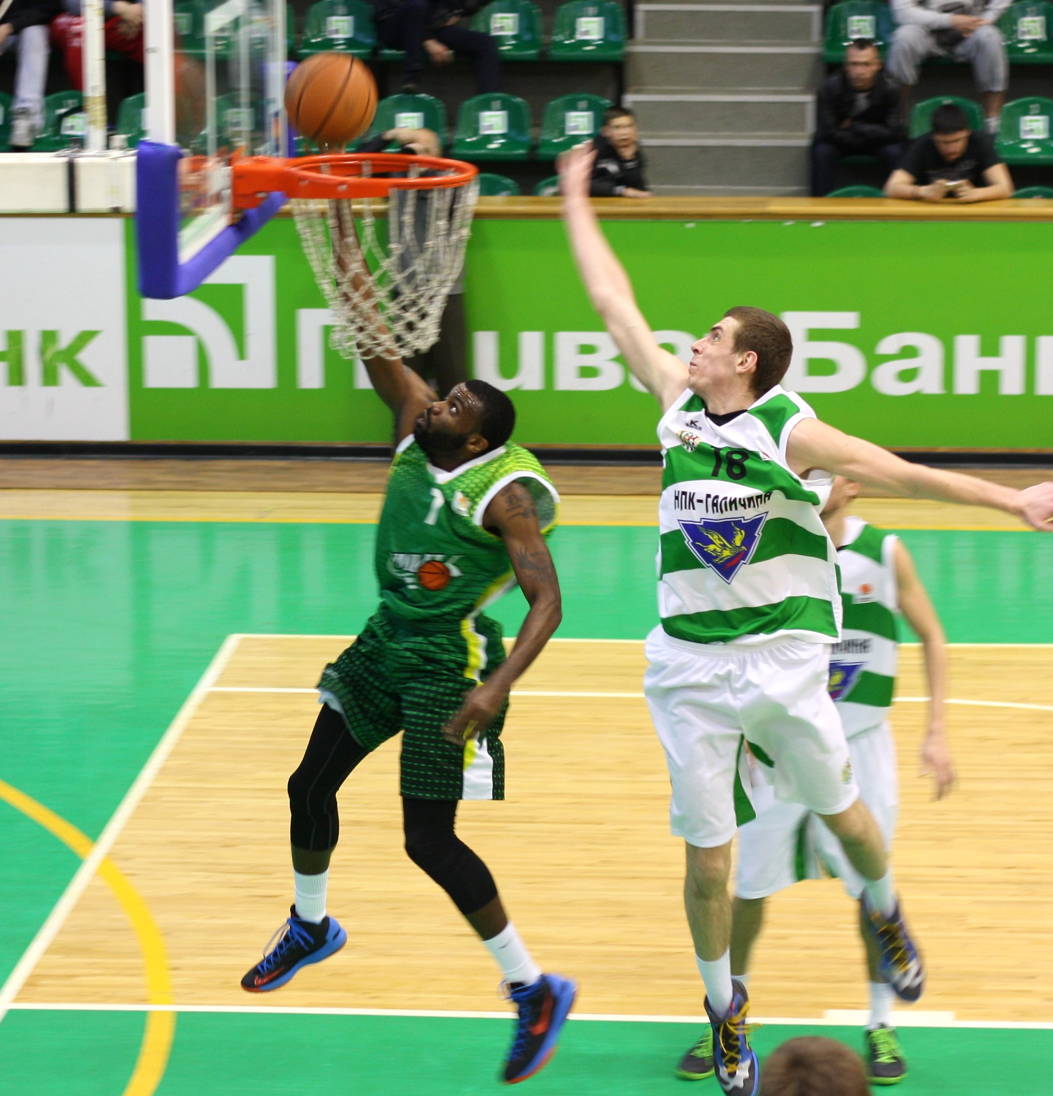 Anton Davydyuk vs Jamal Shuler BC Politekhnika-Halychyna - BC Khimik April 01, 2014